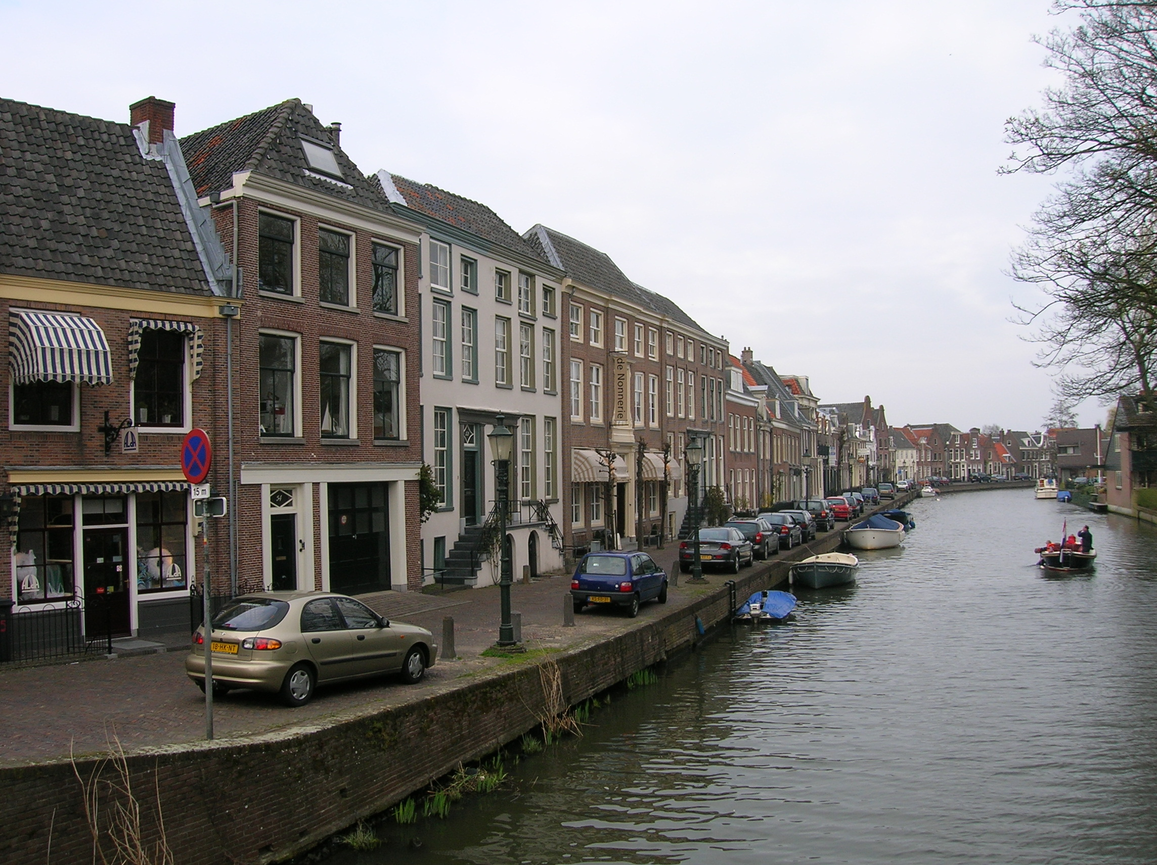 Langegracht, Maarssen, the Netherlands. Picture by SanderK